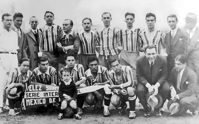 Vélez Sarsfield in the Pan-American tour of 1930–1931. This picture is from a match played in México DF. Standing: Rodolfo Devoto, Celio Caucia, Norberto Arroupe, Fernando Paternoster, Alberto Chividini and Manuel de Sáa. Agachated (?): Agustín Peruch, Francisco Varallo, Bernabé Ferreyra, Alberto Álvarez and Ernesto Garbini.